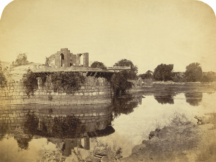 Part of Fort, Beejapore.